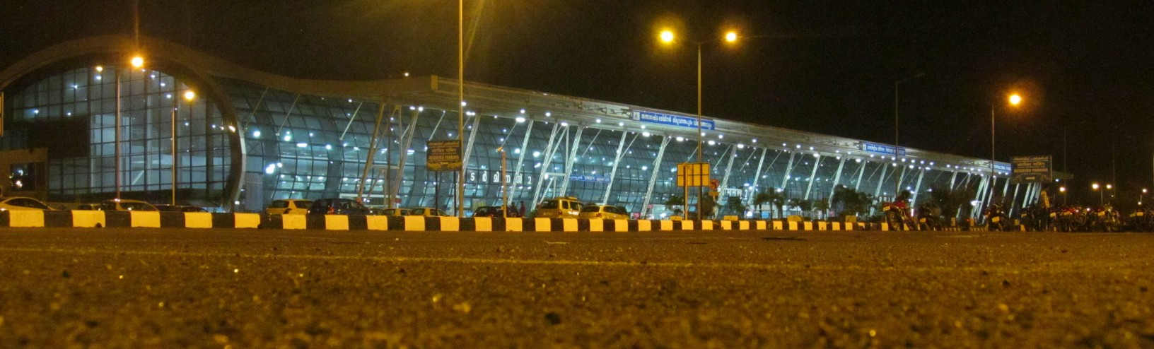 Night view of Trivandrum International Terminal